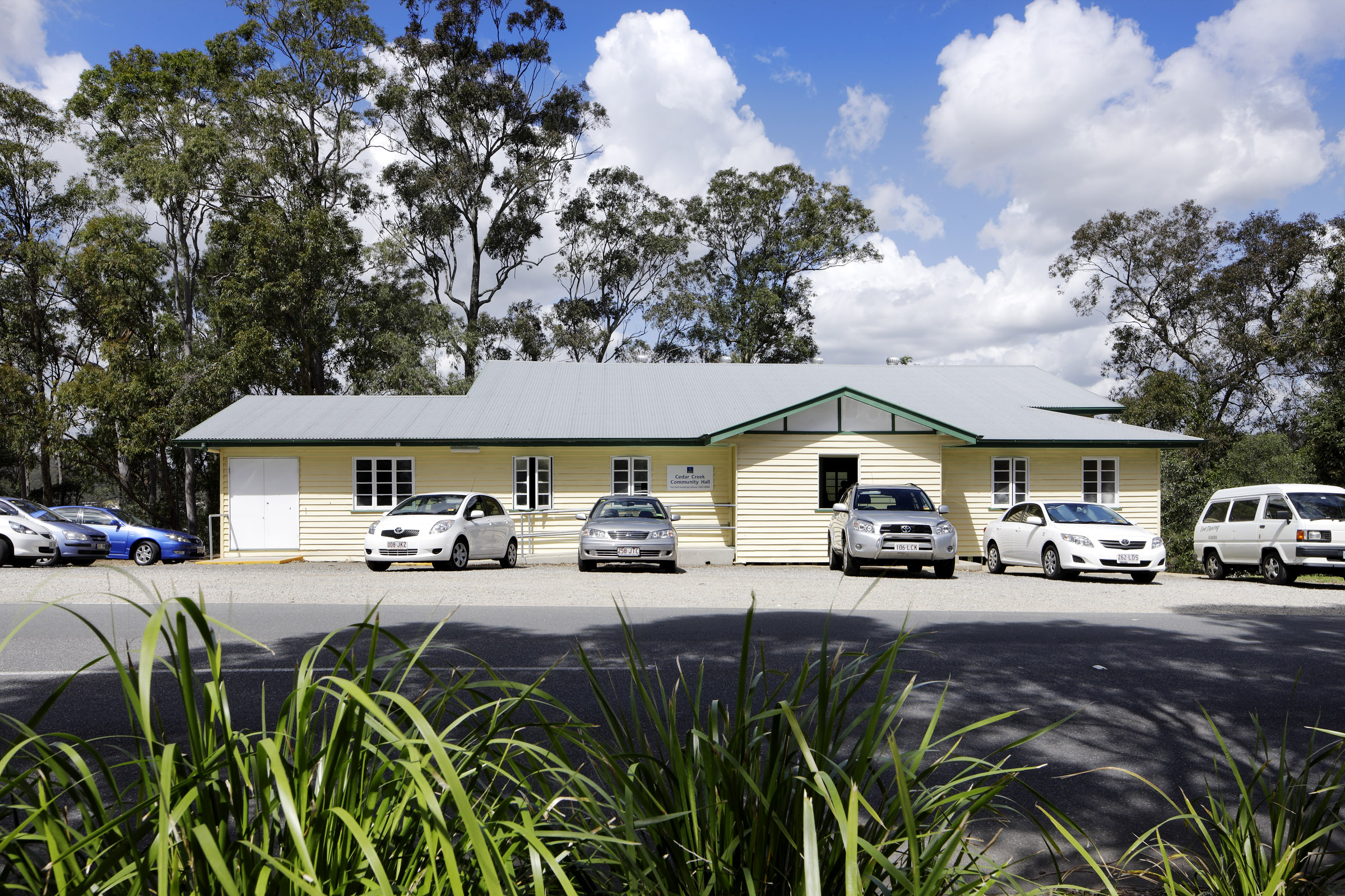 Car parking is available on-site.